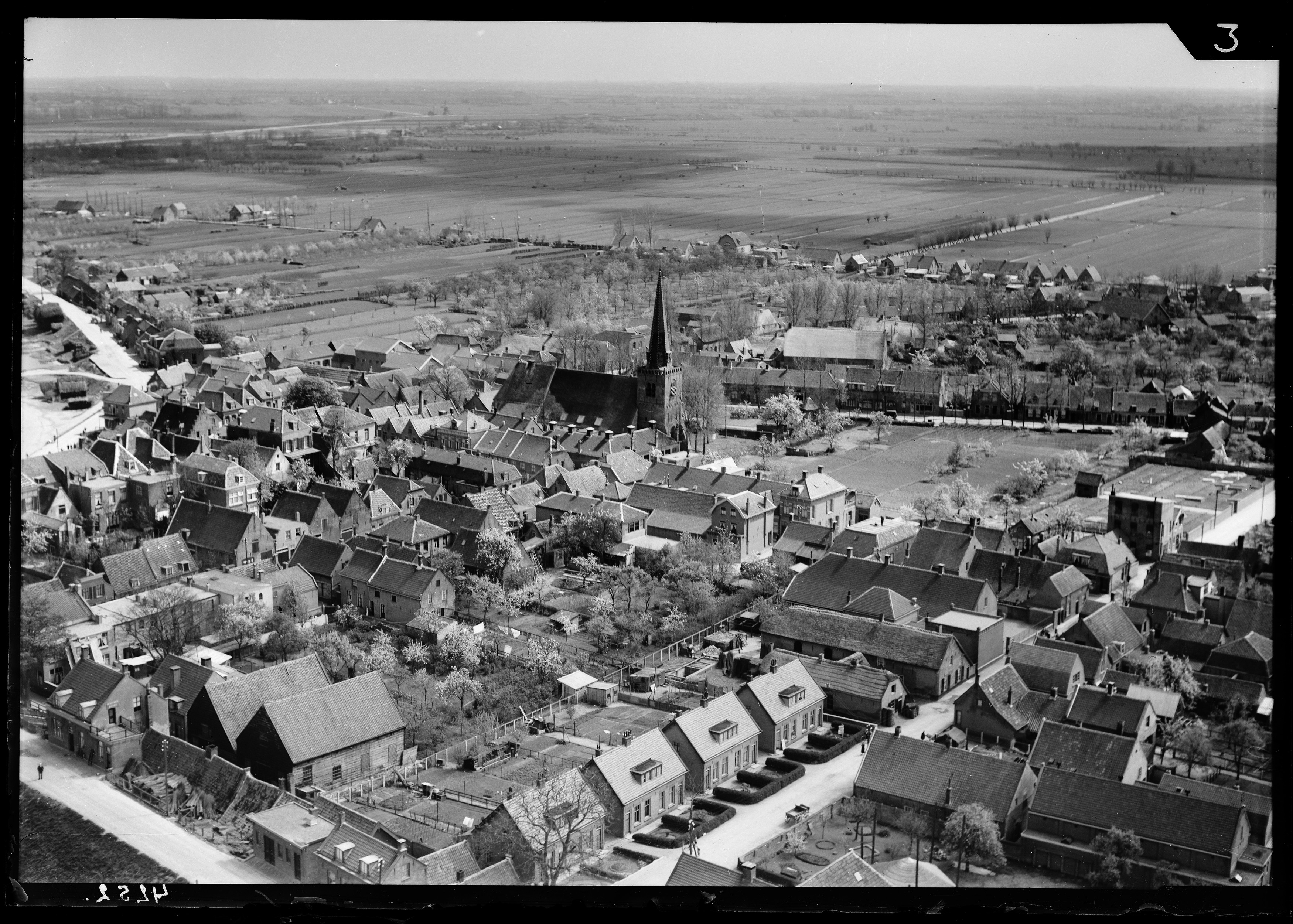 Aerial photograph of Ameide, The Netherlands